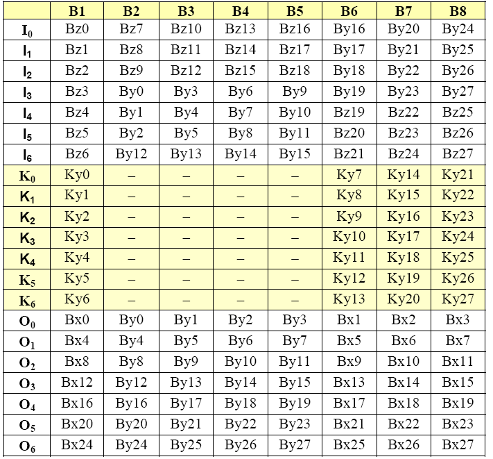 B_round_input_and_output_function in hdcp cipher